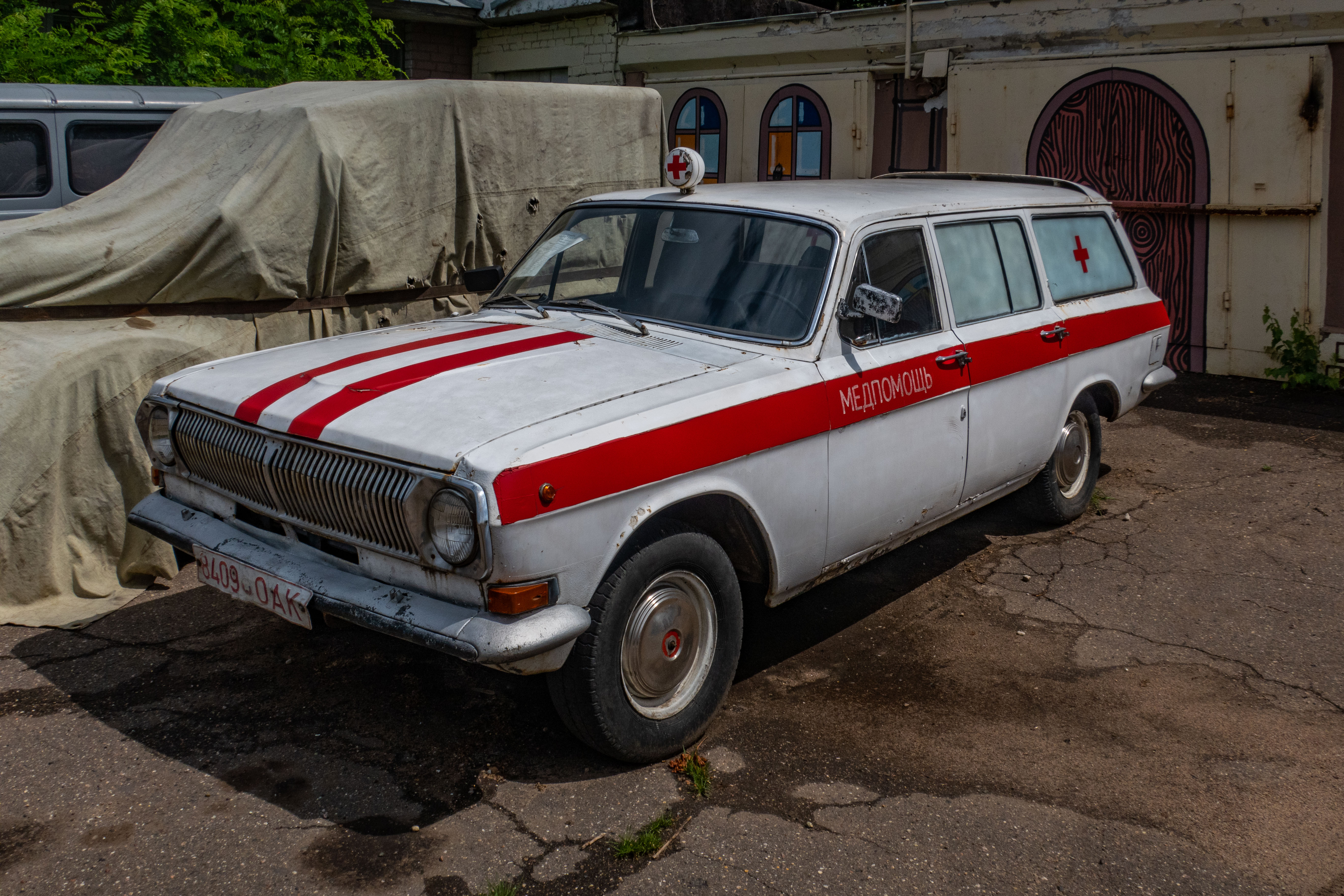 GAZ-24 ambulance (1978). Minsk, Belarus